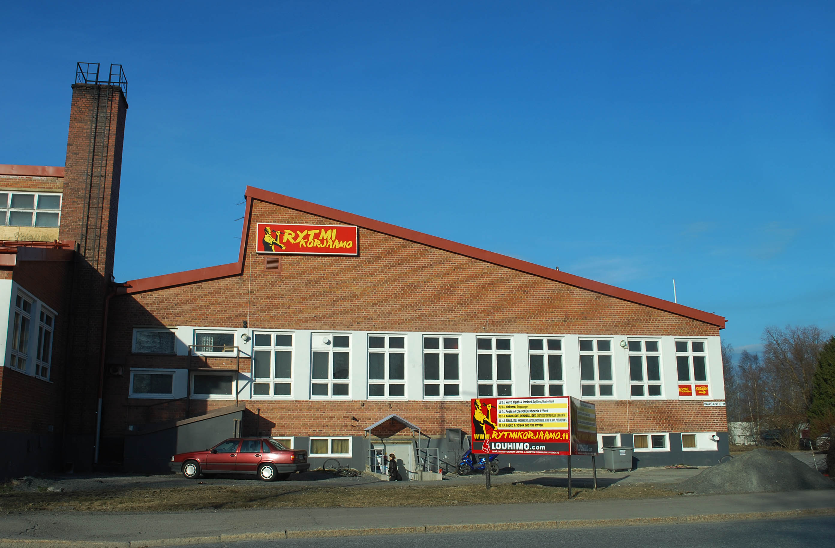 Club Rytmikorjaamo in Seinäjoki, as seen from Vaasantie. Entrance is on the other side of the building.